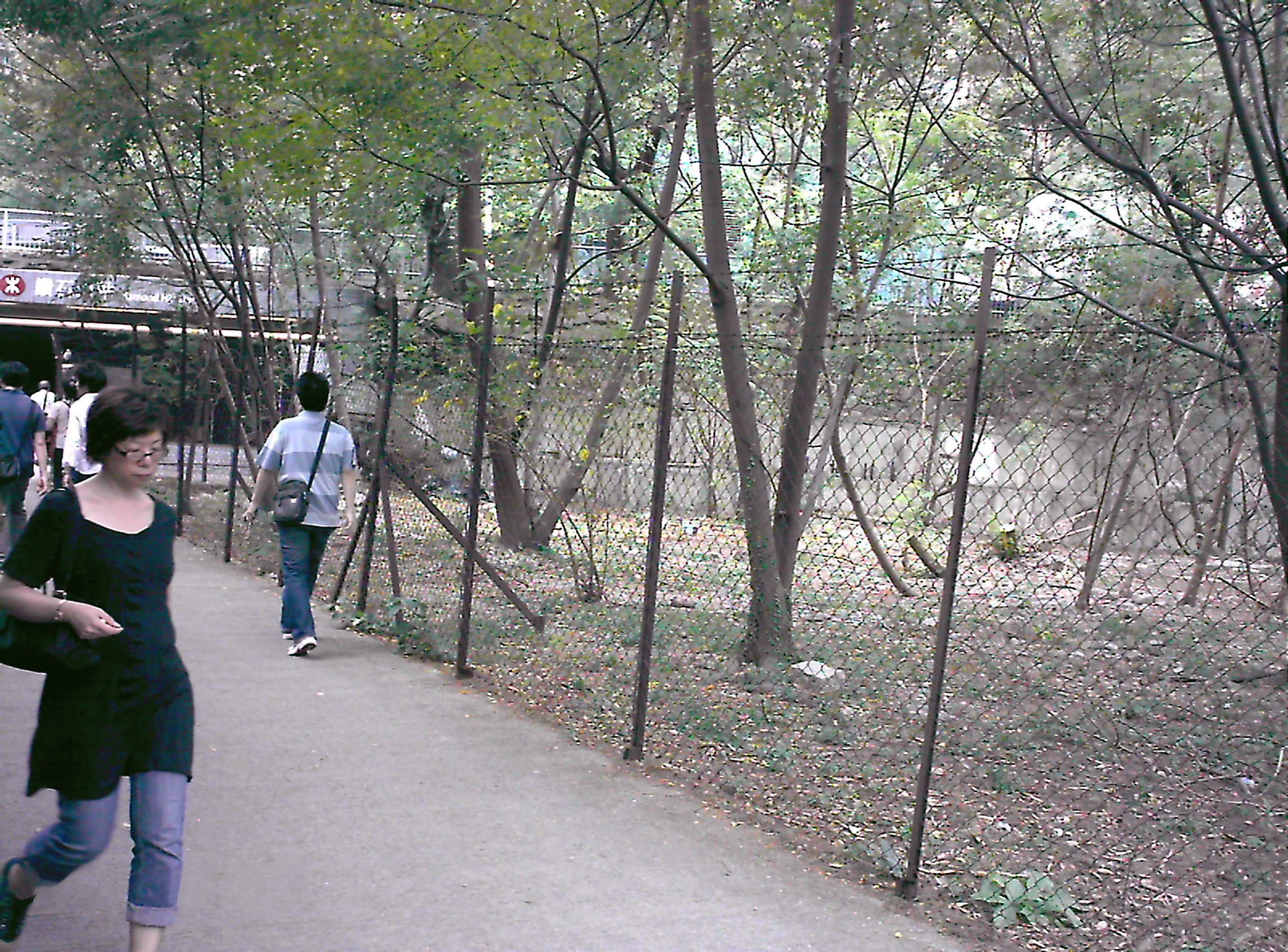 The past site of Wah Ching Chi swimming pool, Diamond Hill, Kowloon, Hong Kong 中文（香港）: 聯誼路的華清池舊址。